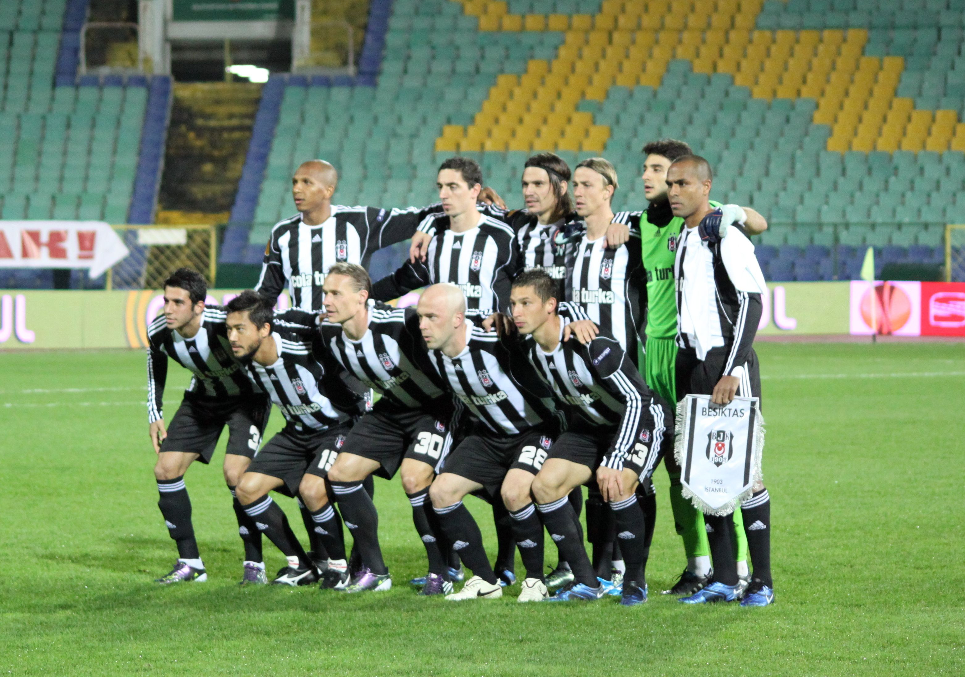 Beşiktaş Jimnastik Kulübü (